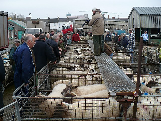 Sheep auction, Newport Cattle Market